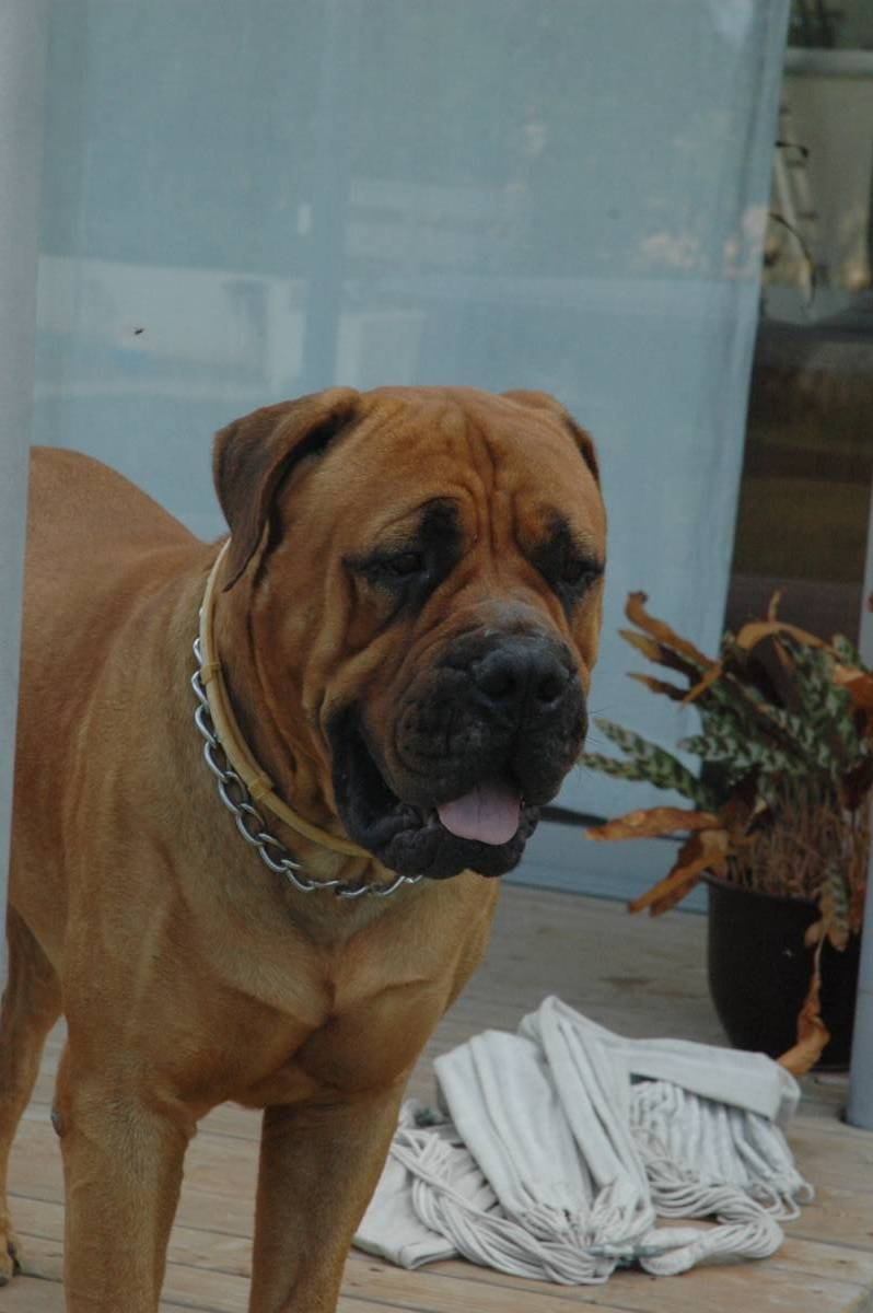 A 2 year old Bullmastiff called George (Israel)